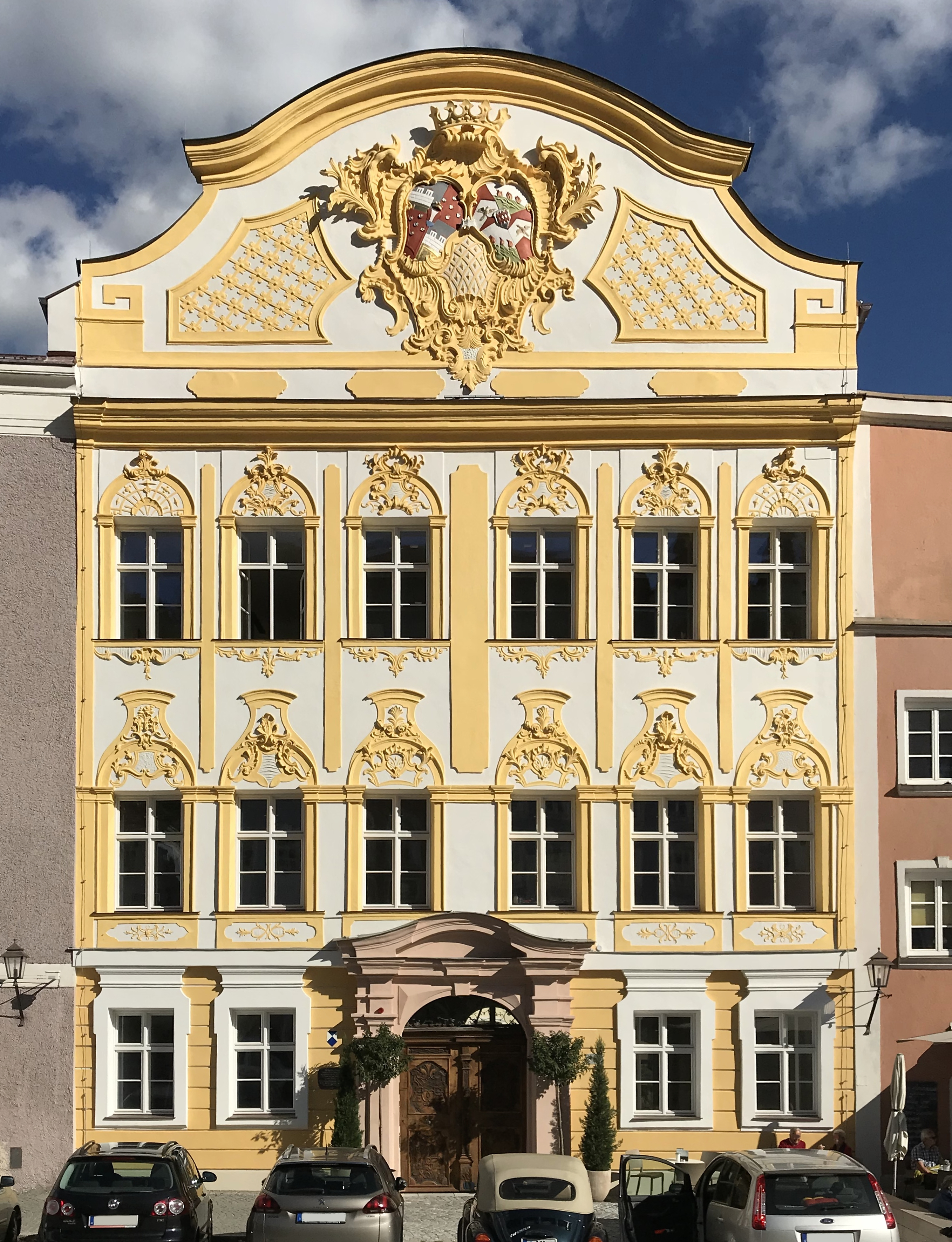 This is a photograph of an architectural monument.